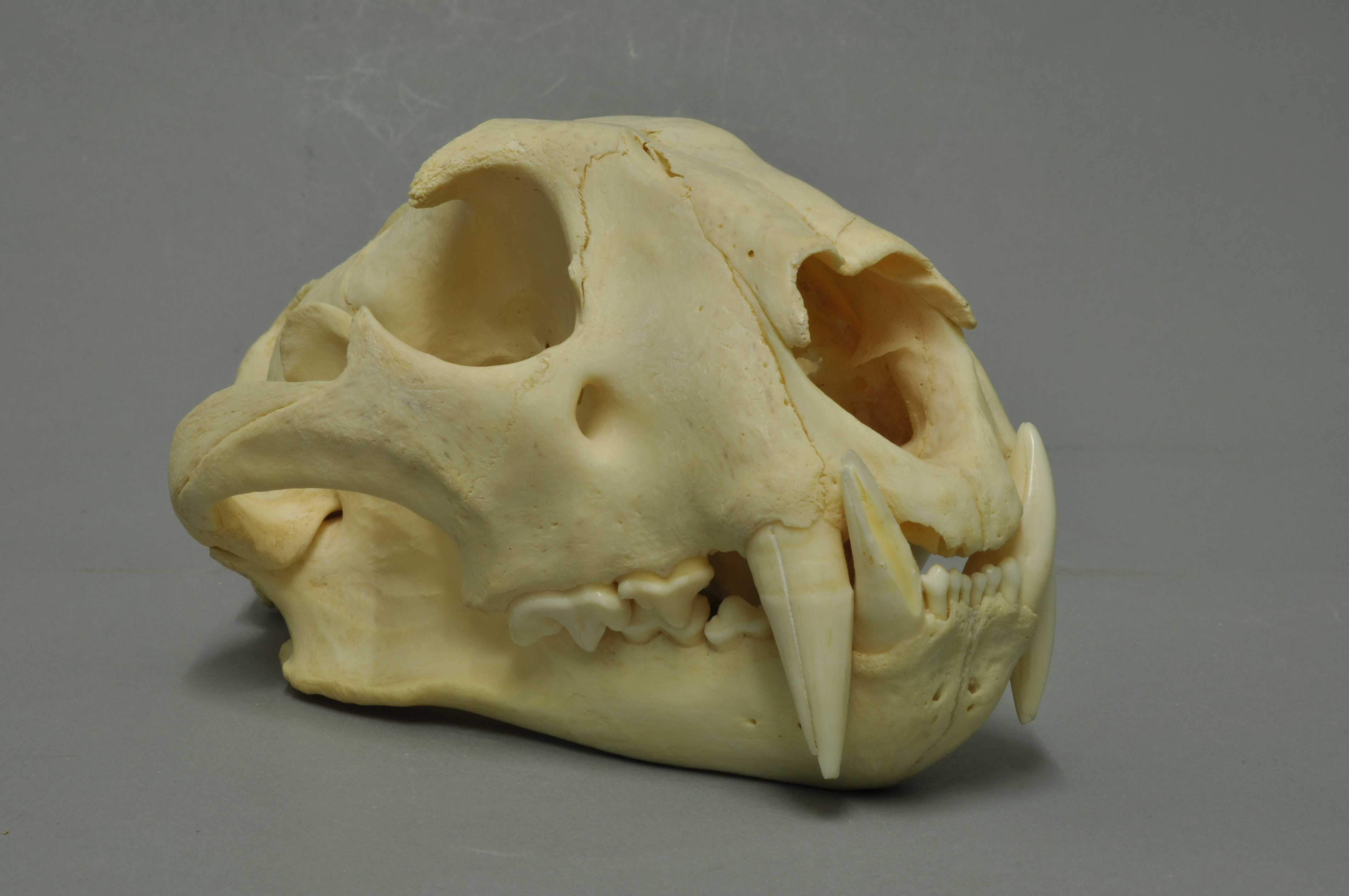 Indochinese leopard Panthera pardus delacouri, skull, Coll. Museum Wiesbaden